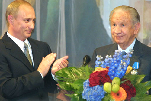 THE KREMLIN, MOSCOW. Opening ceremony of the 112th Session of the International Olympic Committee (IOC). President Putin presenting the Order of Honour to IOC President Juan Antonia Samaranch.